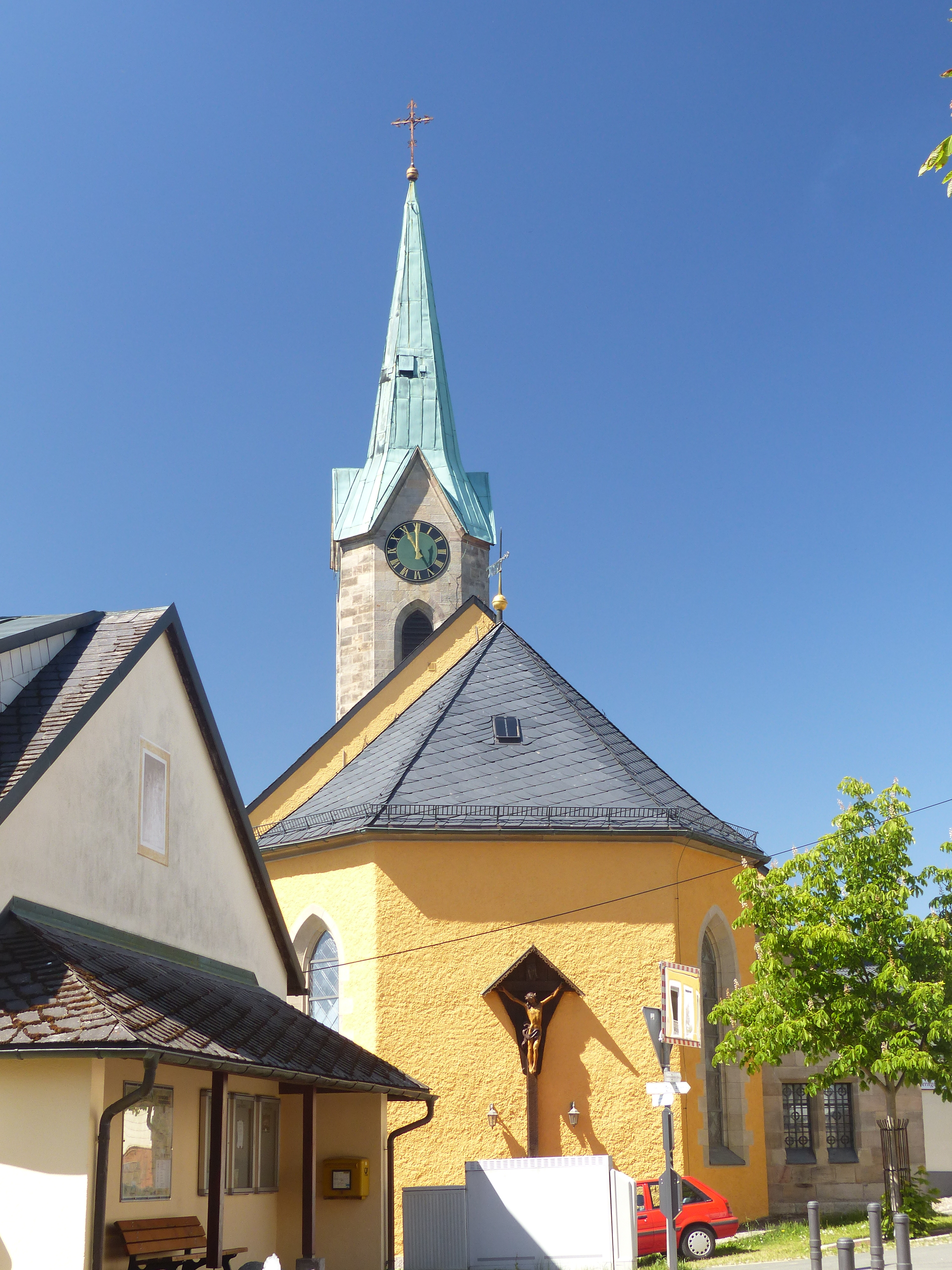 The church St. Jakobus in Enchenreuth, a village and district of the town of Helmbrechts.